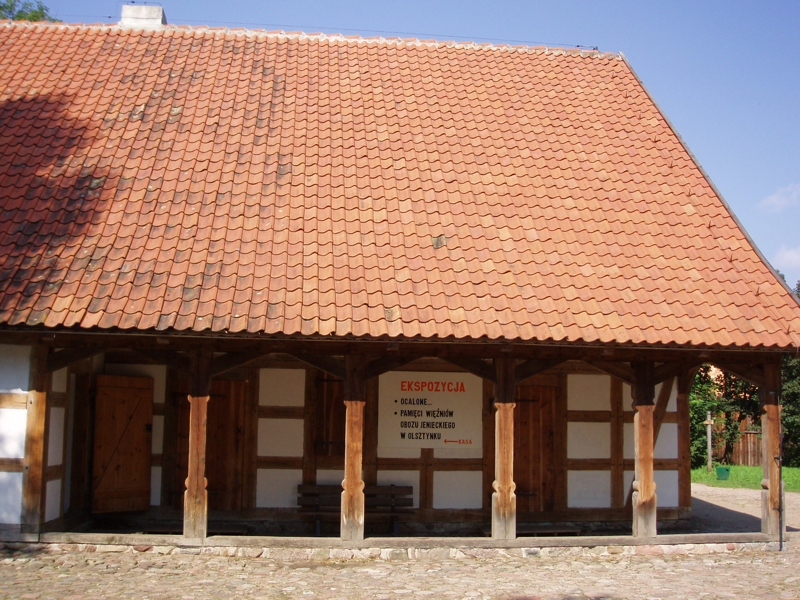 Ethnographic Park in Olsztynek - 2. A 1790 inn from Skandawa near Barciany, Kętrzyn district, replica